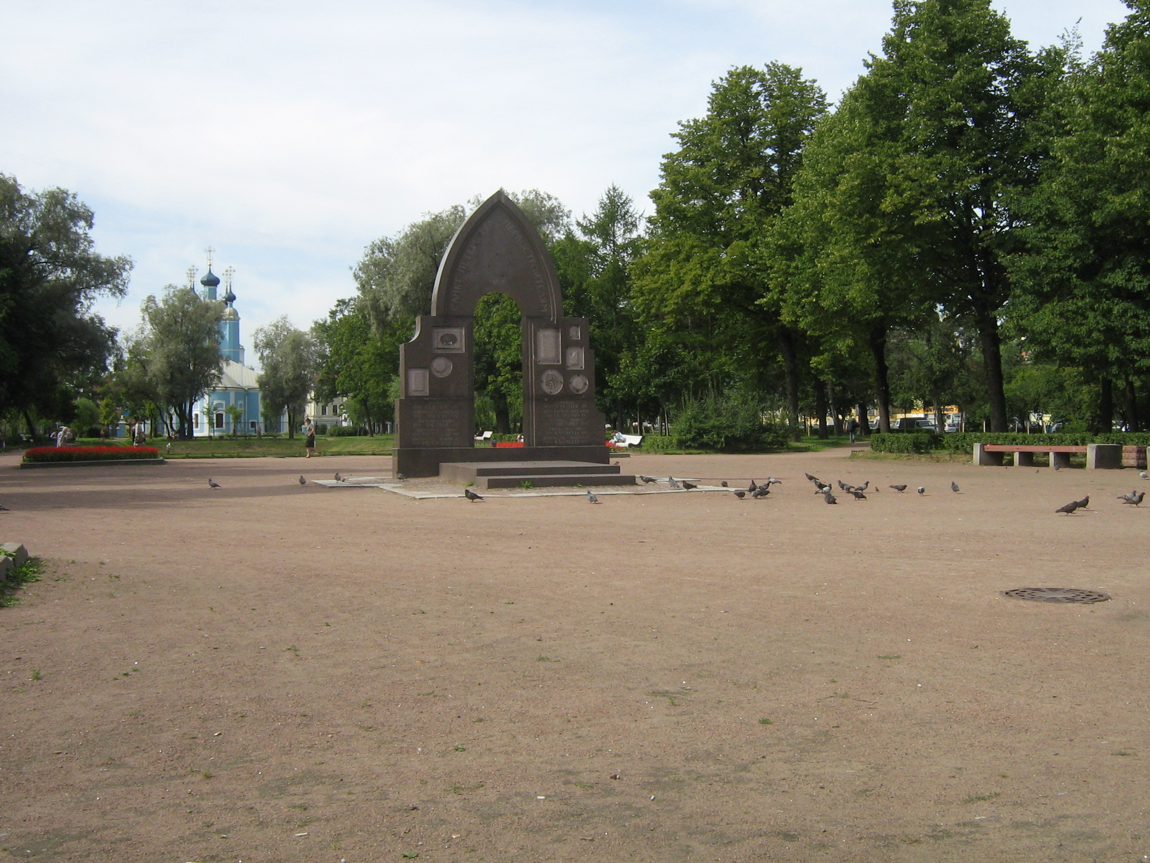 Saint Petersburg (Russia), Bolshoi Sampsonievsky Prospect.